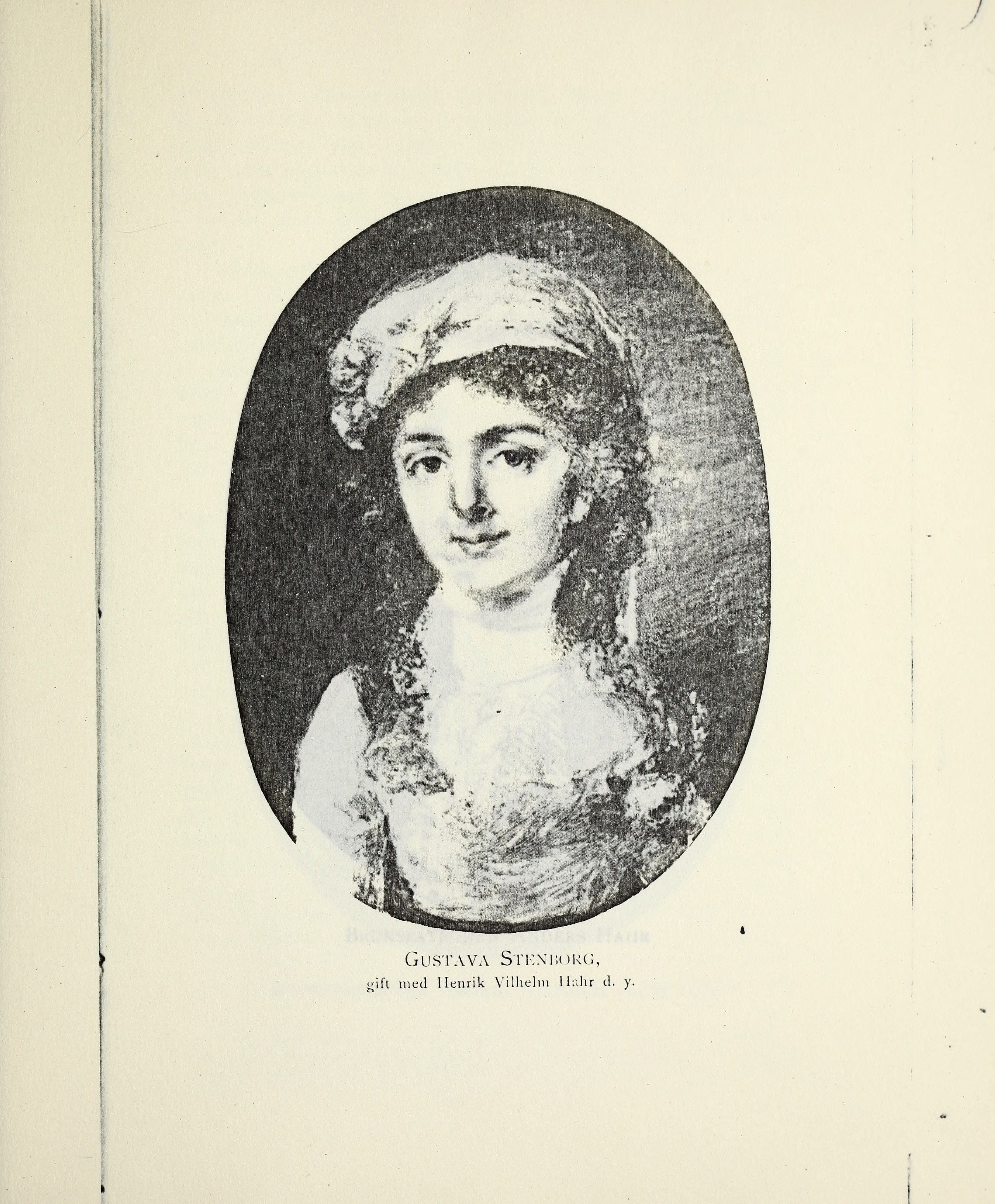 Gustava Stenborg Title: Personhistorisk tidskrift Year: 1917 (1910s) Authors: Personhistoriska samfundet (Stockholm, Sweden) cn Subjects: Genealogy Publisher: Stockholm Text Appearing Before Image: Henrik Vilhelm har hittills ej definitivt kunnat afgöras.Alen det vore att hoppas att eventuellt påträffade andra porträttaf samma personer kunde bidraga till frågans lösning. Till ettförsök till en dylik återkommer jag nedan. Hvad miniatyrerna som sädana angår är porträttet af denunge mannen i den gustavianska dräkten och puderfrisyren sig-neradt: J. A. Gillberg iyS6. De bada andra äro osignerade ochodaterade, men att döma af hela deras karaktär böra de uppståttvid 1790-talets midt. Efter sin återkomst frän England måladevisserligen Gillberg dylika porträtt. Aten miniatyreVna kunnadock ha ett annat ursprung, i synnerhet da deras konstnärlighetär vida större. Det är emellertid af intresse att se, af hvilkenmålerisk hållning dessa bilder äro, jämförda med förstnämndaherrporträttet. De ha den utvecklade miniatyrkonstens tonigakölorism i bjärt kontrast mot den spetspenslighet, sirlighet ochdetaljerade noggrannhet, som utmärker bilden från 17S6. Alen Text Appearing After Image: '